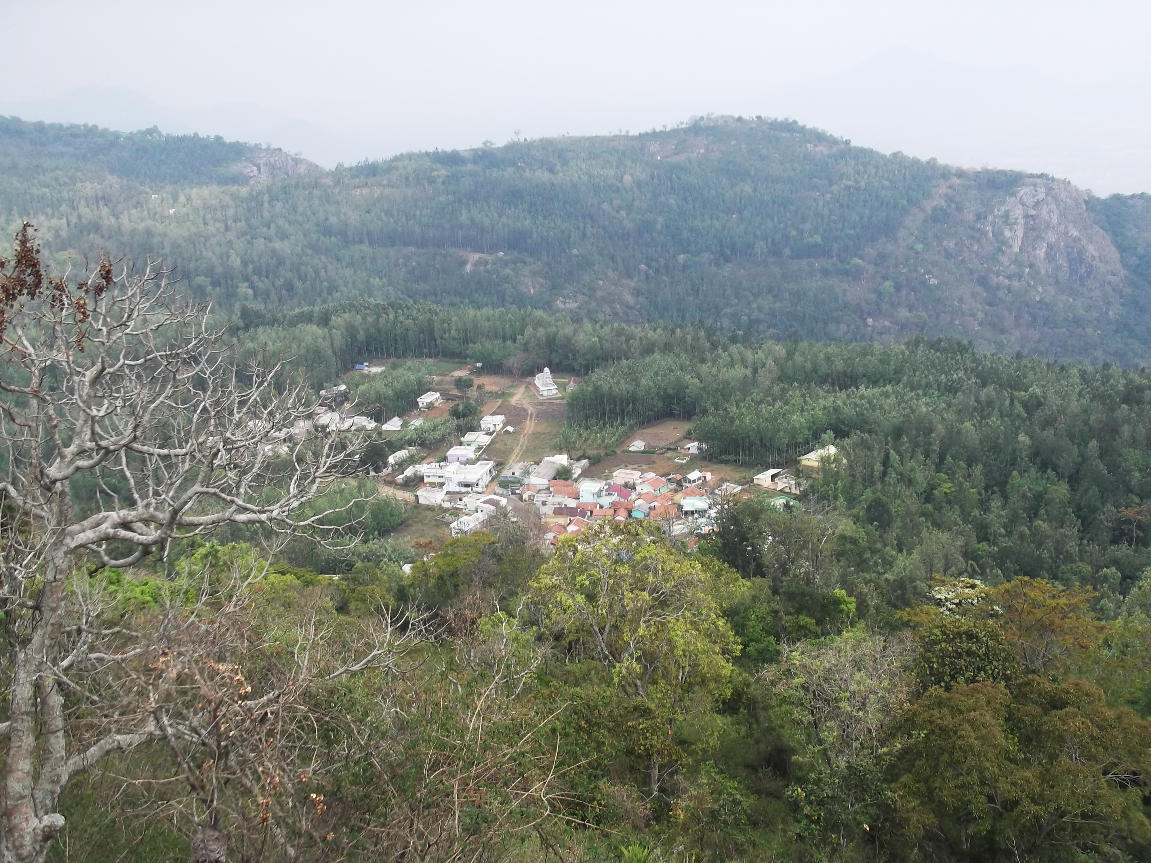 Photo taken from pagoda point.